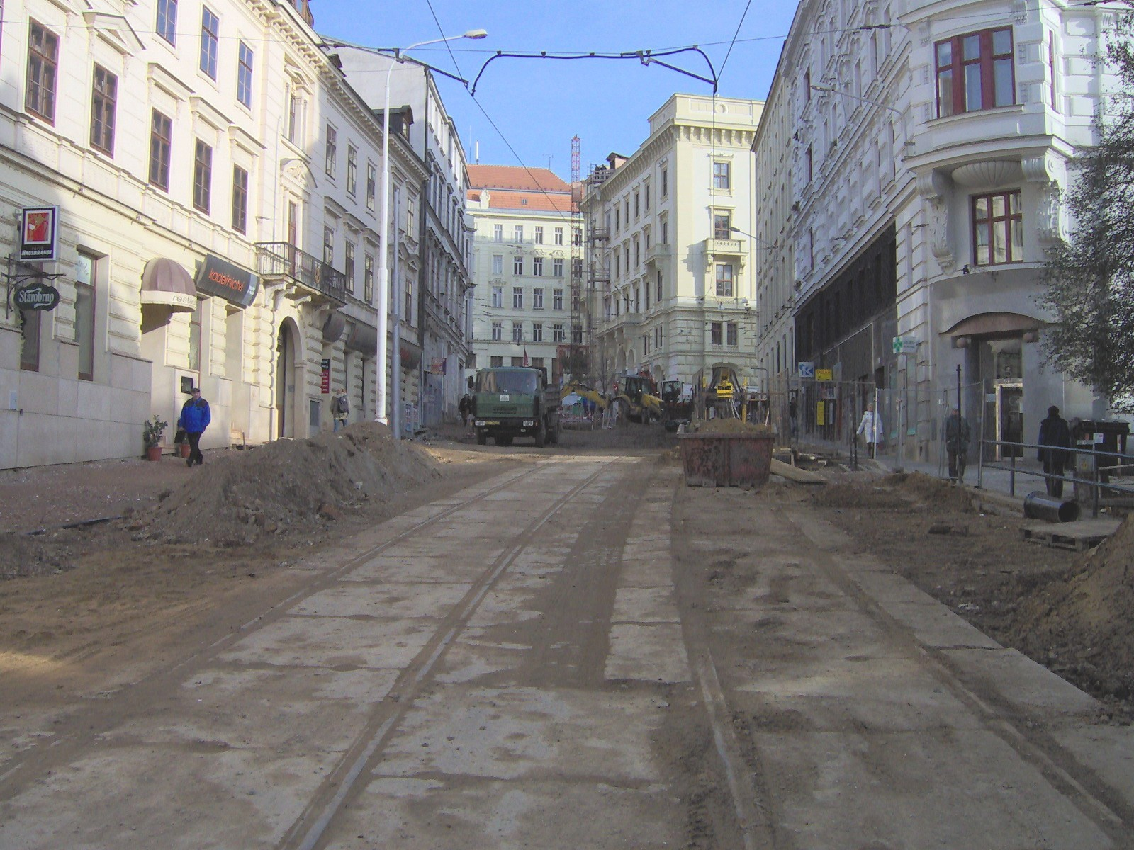 Tram track under reconstruction in Pekařská street